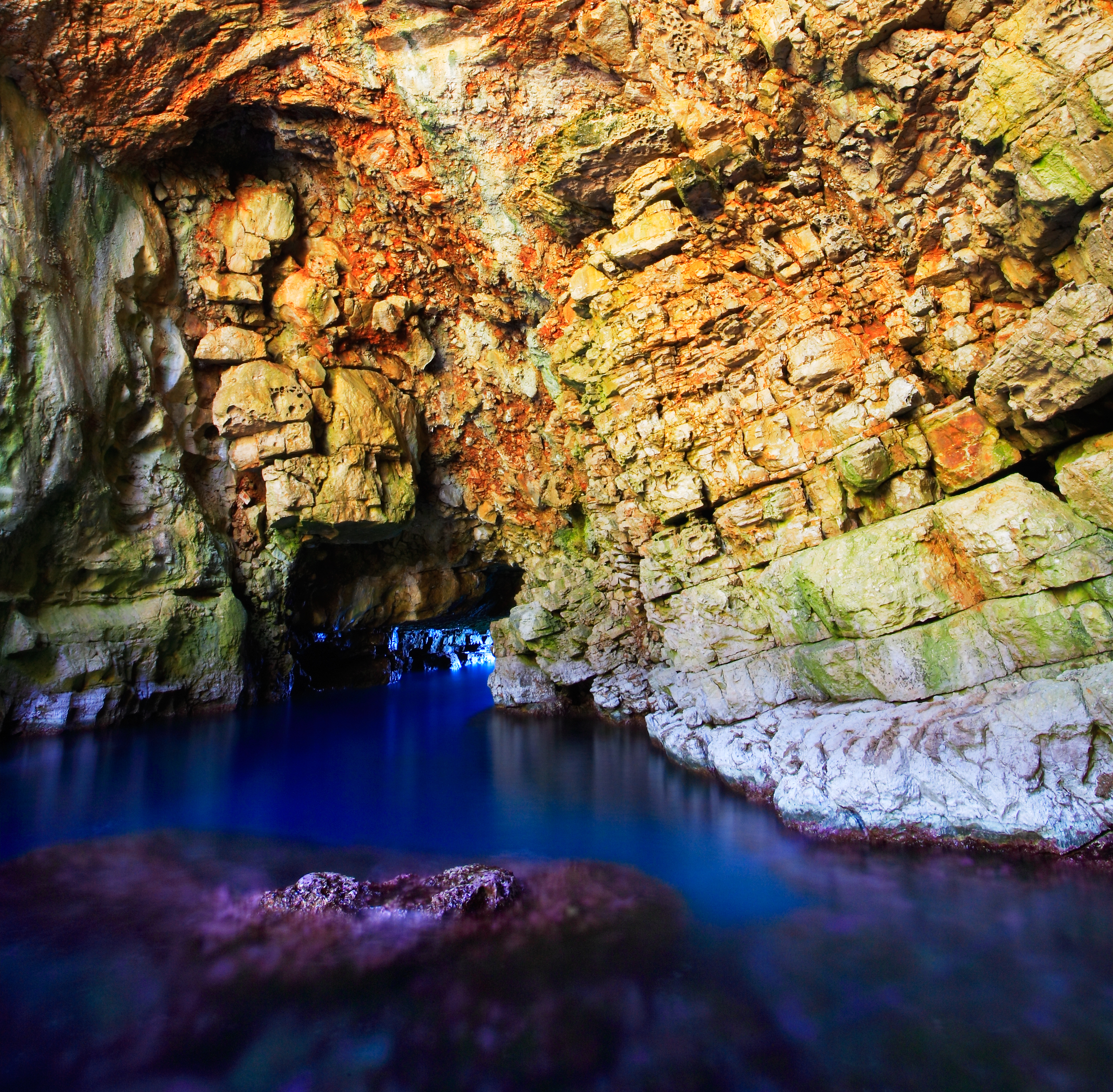 Ulysses's cave on the island of Mljet, Croatia